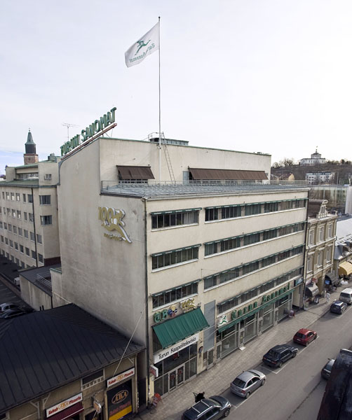 Turun Sanomat, Kauppiaskatu, Turku